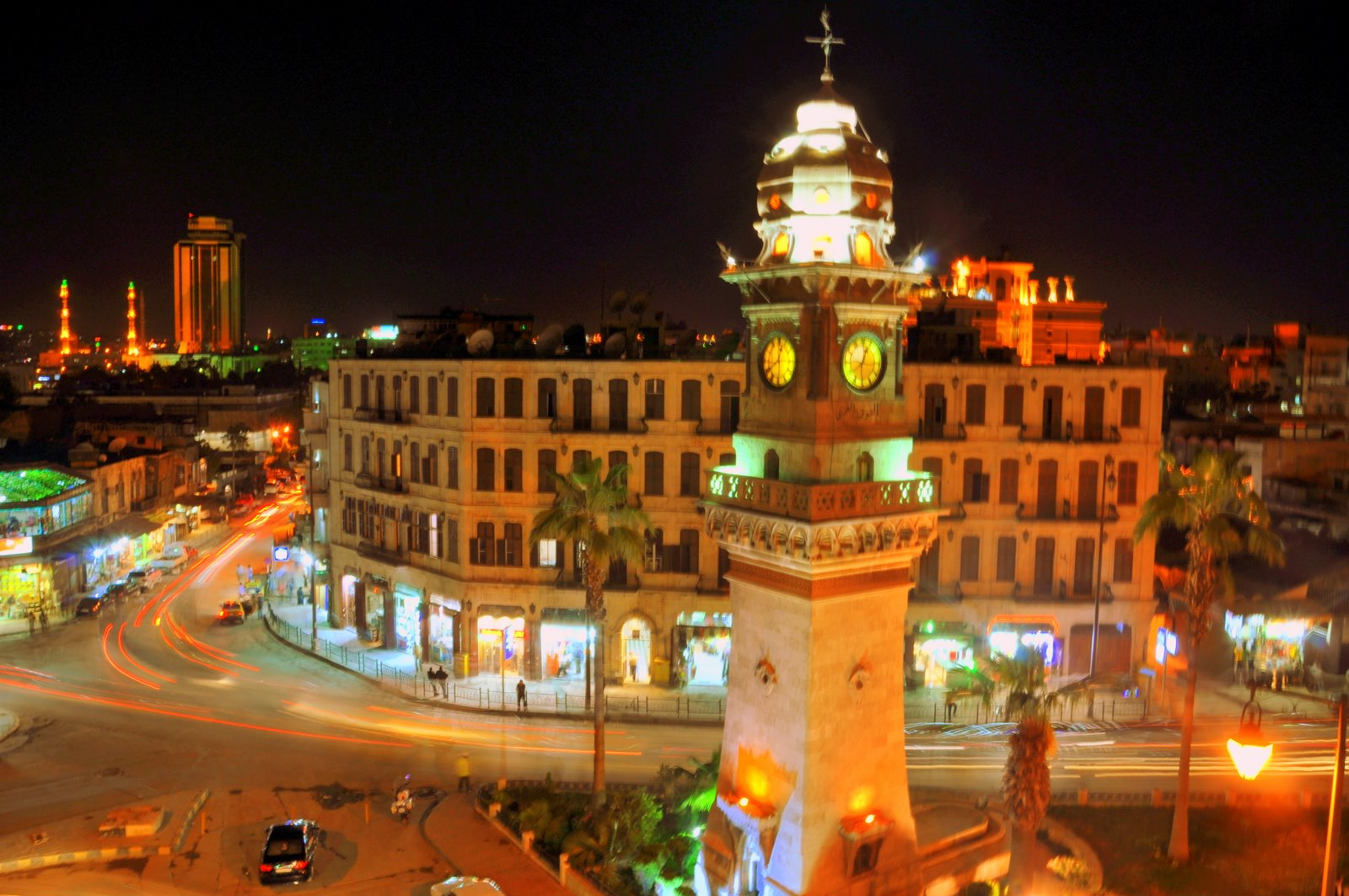 Aleppo at night, Bab Al-Faraj